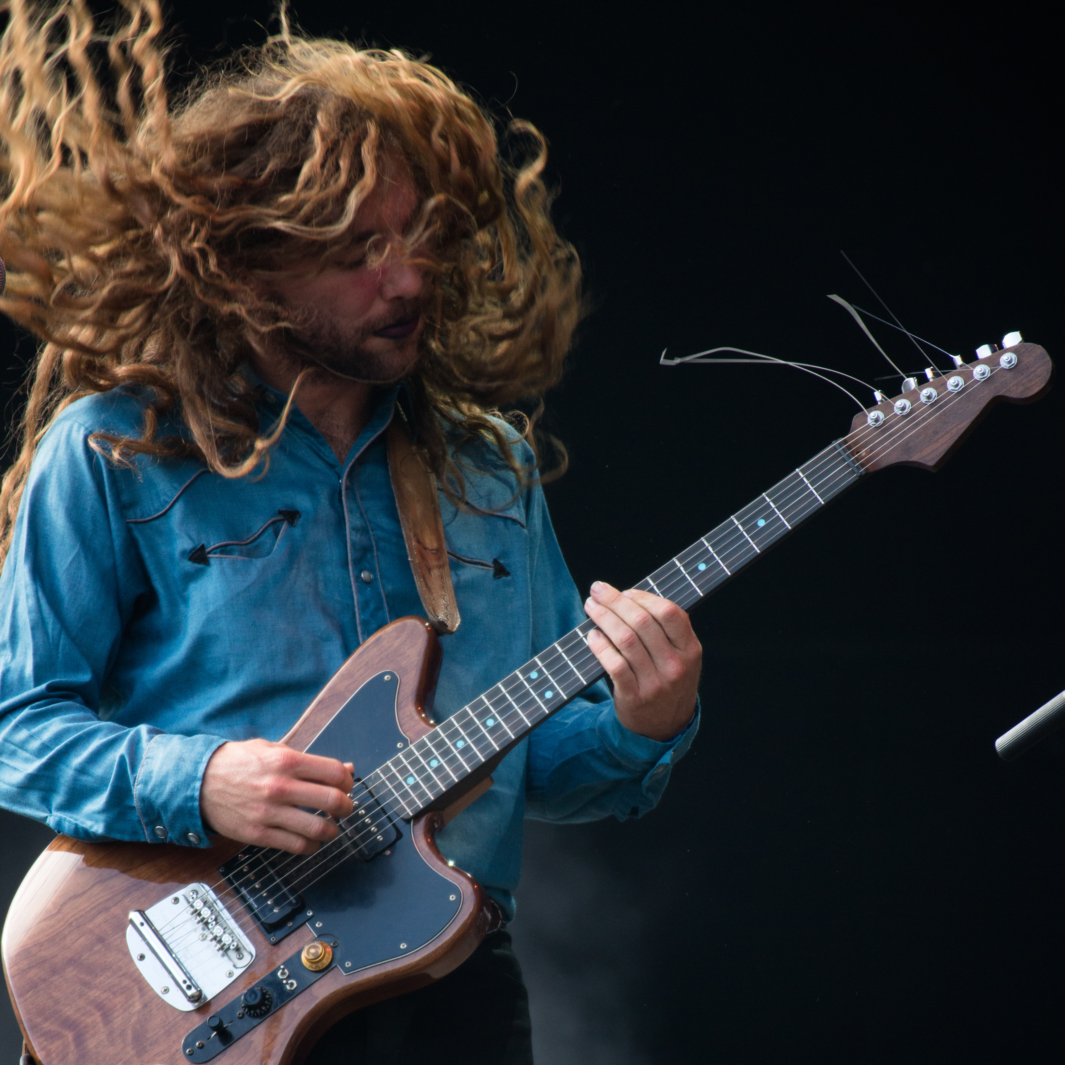 Charles Moothart during the Fuzz concert in Rock en Seine 2015, Paris.